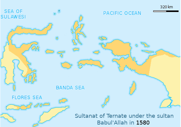 Sultanat of Ternate in 1580, under the sultan Babul'Allah. Based under Resources used to create the map: Majapahit, Kompas Daily, Jakarta Indonesia Latif, Chalid; Irwin Lay , ed. (1997) Atlas Sejarah Indonesia dan Dunia (Historical Atlas of Indonesia and World), PT Pembina Peraga, Jakarta (in indonesian) IPS Terpadu (Sosiologi, Geografi, Ekonomi, Sejarah), PT Grafindo Media Pratama, p. 219 ISBN: 9789797583378 Wikipédia